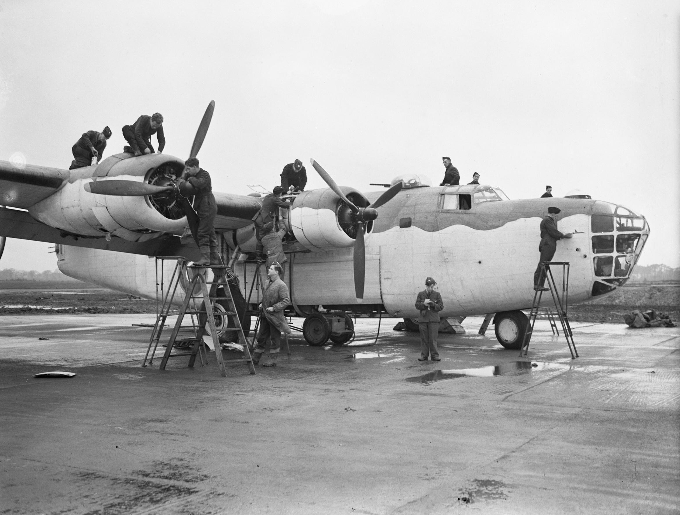 Royal Air Force 1939-1945- Coastal Command Daily inspection for a Liberator III of No 224 Squadron at Beaulieu in Hampshire, December 1942.